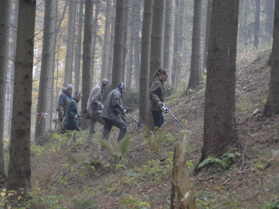 Battle at the Harzhorn: The area is being archaeological surveyed by means of metal detectors.